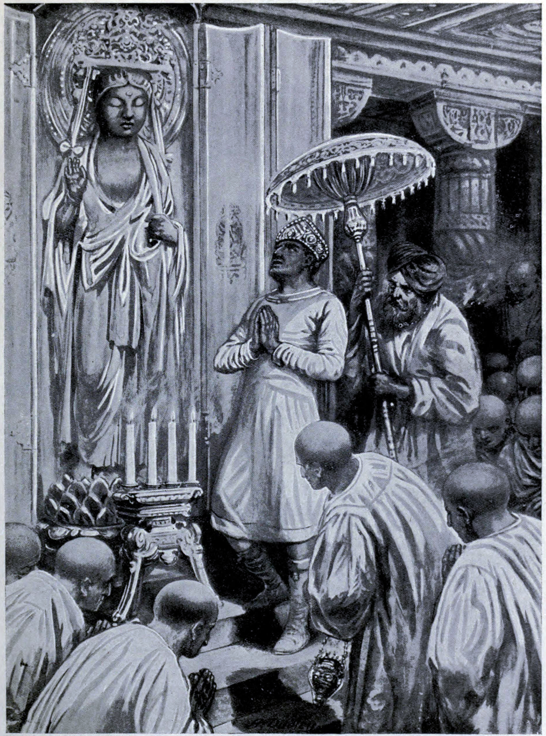 Ambrose Dudley Medium: Oil Painting Reproduction on Canvas Delivery: Delivered within 21-28 days Shipping: FREE Shipping & Handling Item Number: 25259030